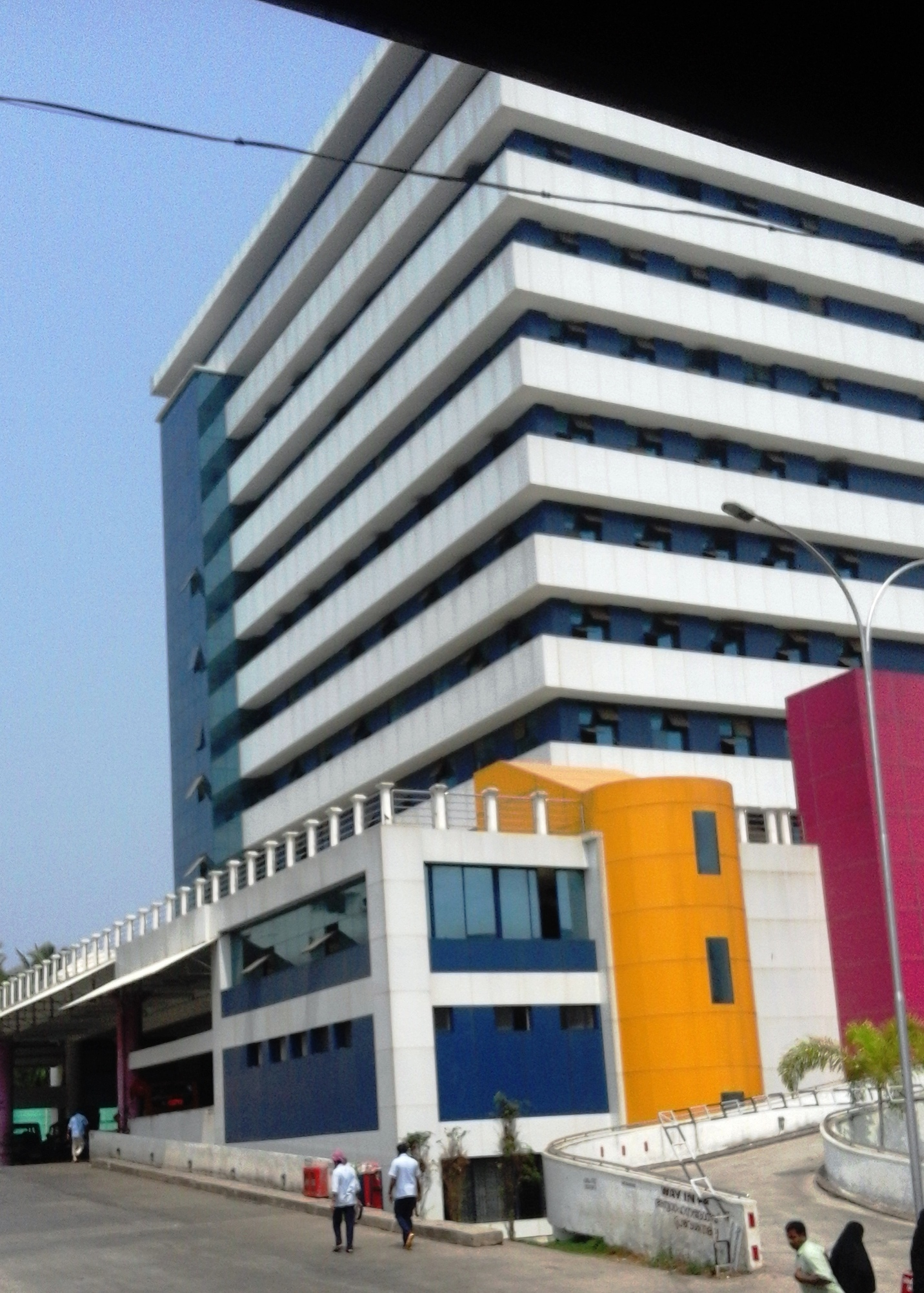 Calicut, Kerala, India